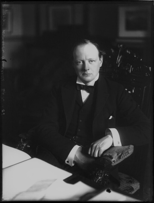 Churchill in 1911 by Bassano